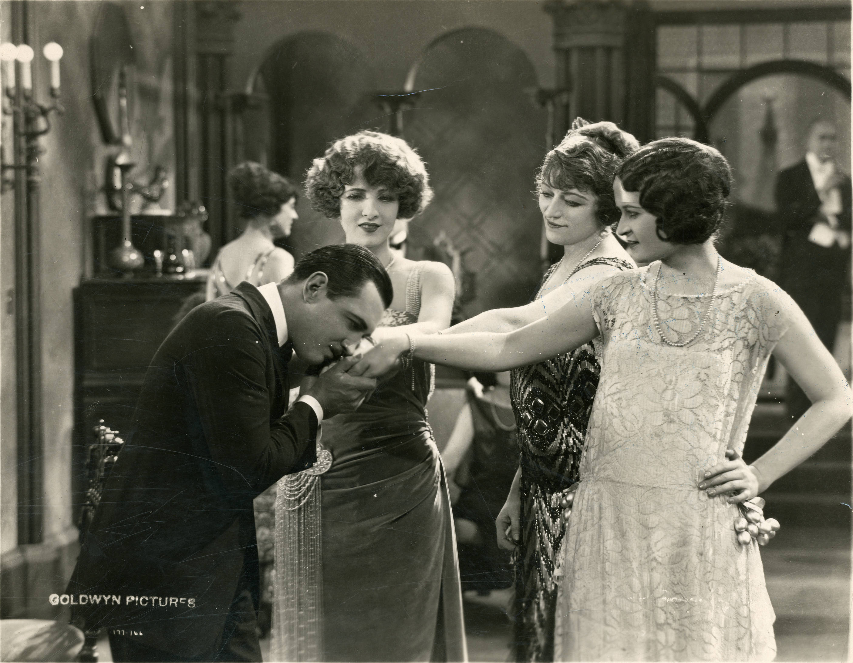 Still from the American drama film The Eternal Three (1923). Subjects: motion pictures, actresses, actors